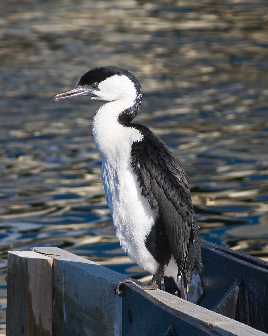 Black-faced Cormorant (Phalacrocorax fuscescens), Kettering, Tasmania, Australia Camera data Camera Canon EOS 400D Lens Canon EF 400mm f5.6L w/ 1.4x teleconverter Flash Fill w/ Fresnel Extender Focal length 560 mm Aperture f/11 Exposure time 1/500 s Sensivity ISO 400